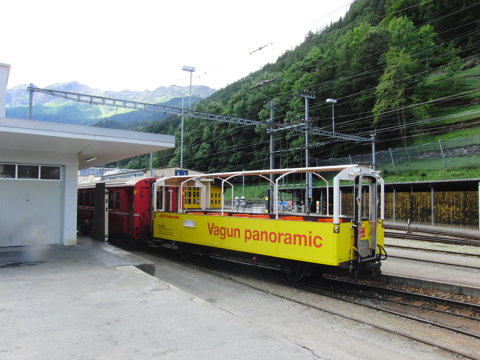 Rhätische Bahn vagun panoramic at Poschiavo, 16 Aug 2014